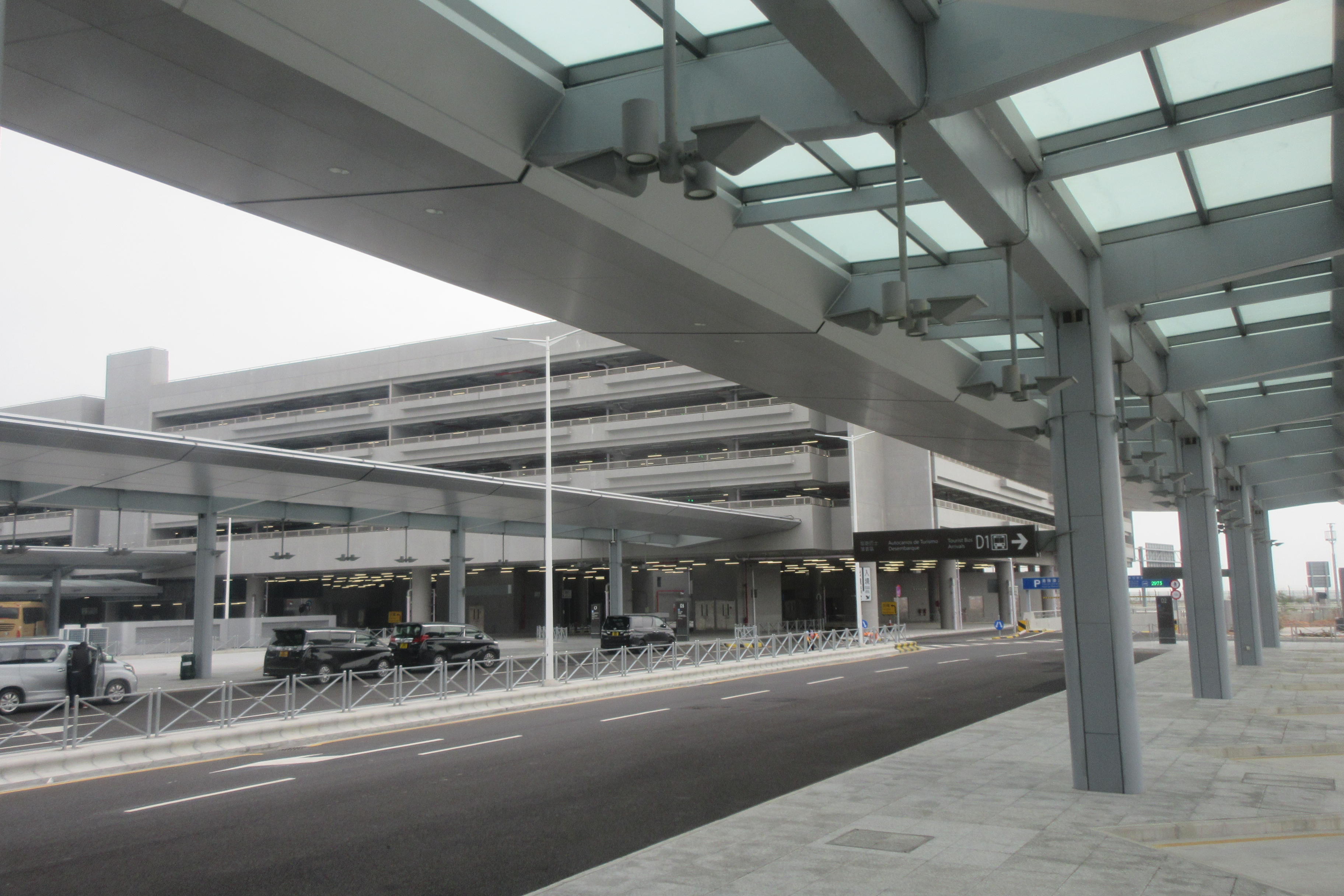 MC Macau 珠江三角洲 Pearl River 港珠澳大橋 HK-Zhu-Macau bridge January 2019